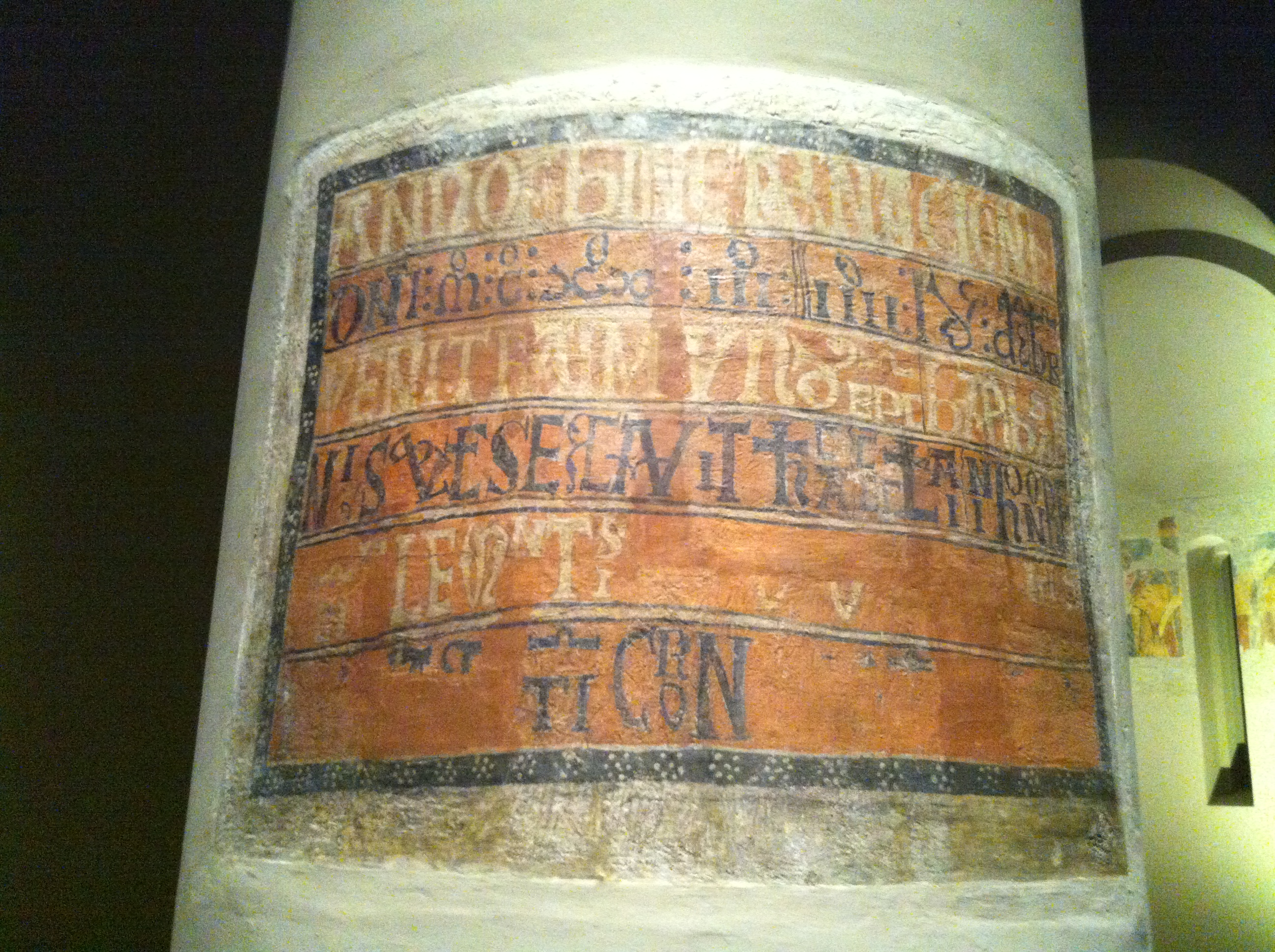 Paintings of the Central Apse of Sant Climent in Taüll, now conserved at MNAC; the National art Museum of Catalonia.